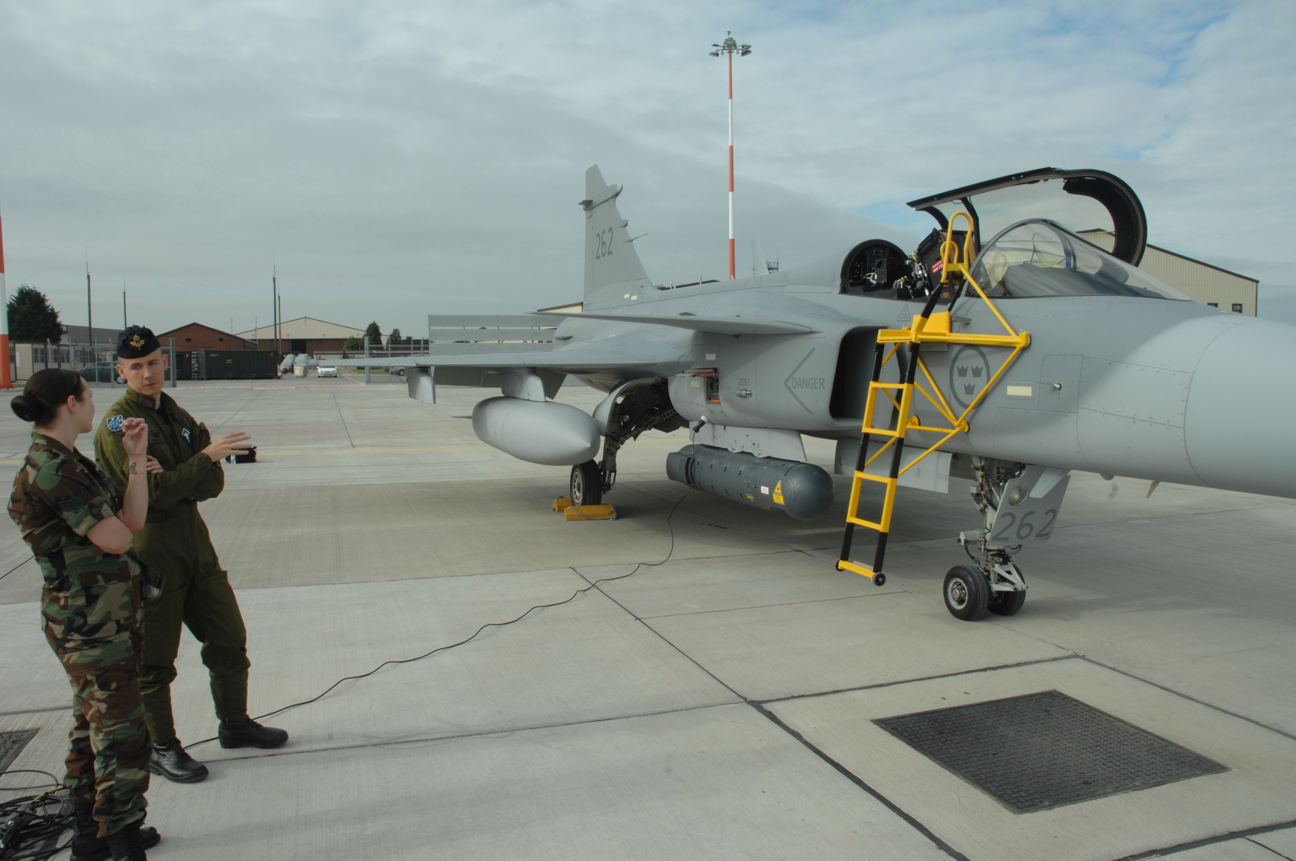 A Swedish Air Force 1st Lt. discusses the features of the Saab JAS 39 Gripen aircraft with U.S. Air Force Airman 1st Class Torri Ingalsbe, of the 48th Fighter Wing, during Bergqvist's visit to Royal Air Force Lakenheath, United Kingdom, on 6 September 2007.